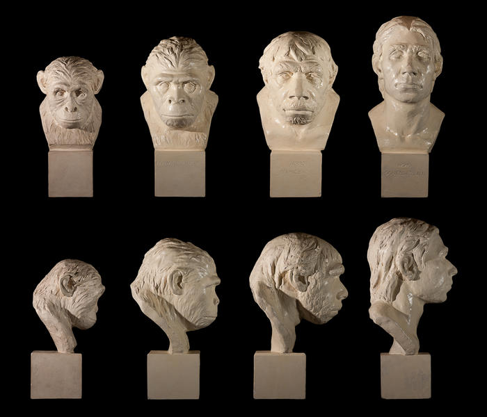 Sculptor Jaroslava Lukešová (1920-2007) (during his studies) created educational impressive work "Evolution of Man" (based on the known current scientific knowledge). She cooperated with the Czech paleontologist Prof. Dr. Josef Augusta. Casts with heads of biological human ancestors are still found in various zoos of the world.